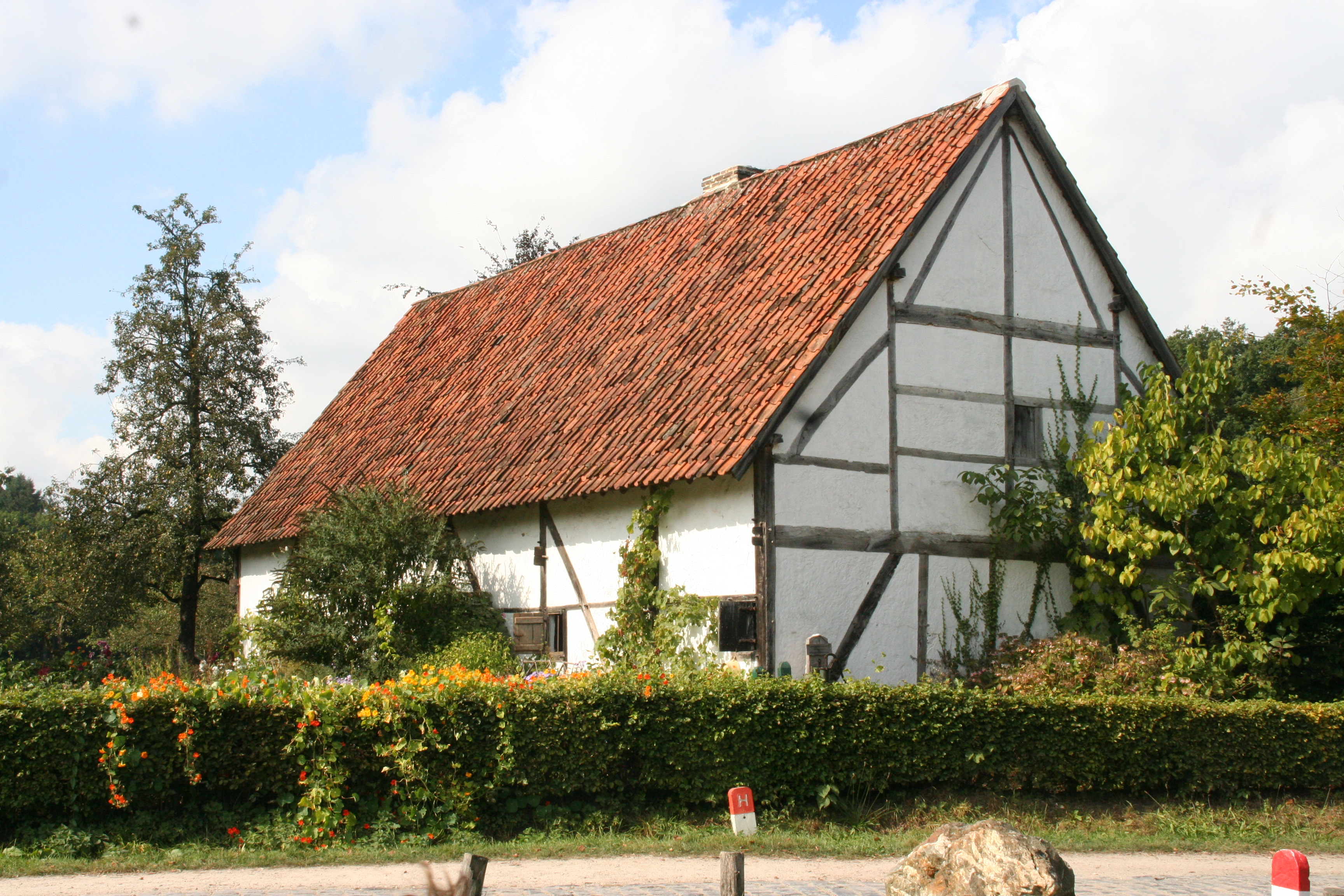 Cottage from Kortessem in Bokrijk open-air museum, Belgium.